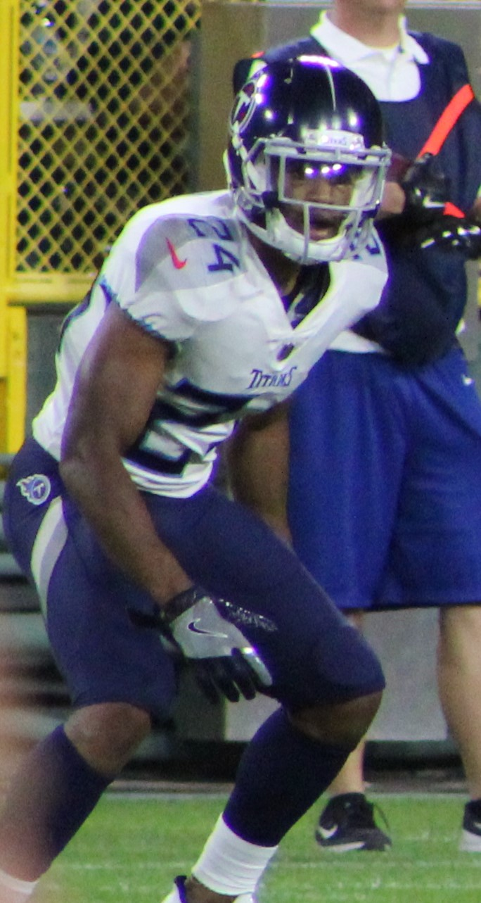 Kalan Reed, Tennessee Titans at Green Bay Packers (Preseason), August 9, 2018